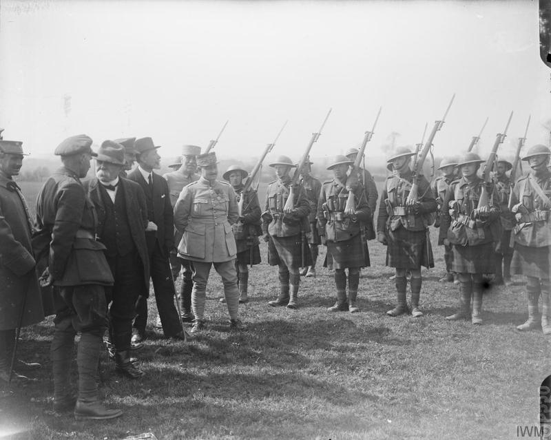 The Official Visits To the Western Front, 1914-1918 Georges Clemenceau, the French Prime Minister, inspecting troops of the British 33rd Division at Cassel, 21 April 1918. He is accompanied by General Reginald Pinney, the Commander of the Division.